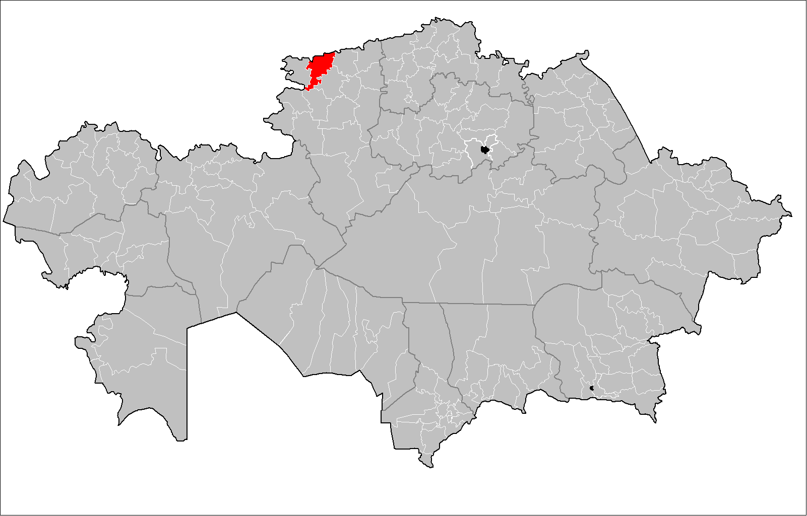 Map of the rayons of Kazakhstan. Created by Rarelibra 16:49, 3 August 2007 (UTC) for public domain use, using MapInfo Professional v8.5 and various mapping resources.